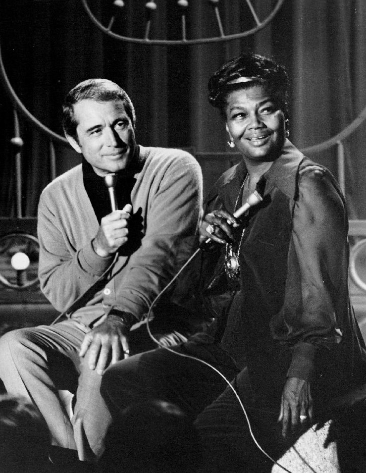 Photo of Pearl Bailey with guest Perry Como on her short-lived television program, The Pearl Bailey Show.